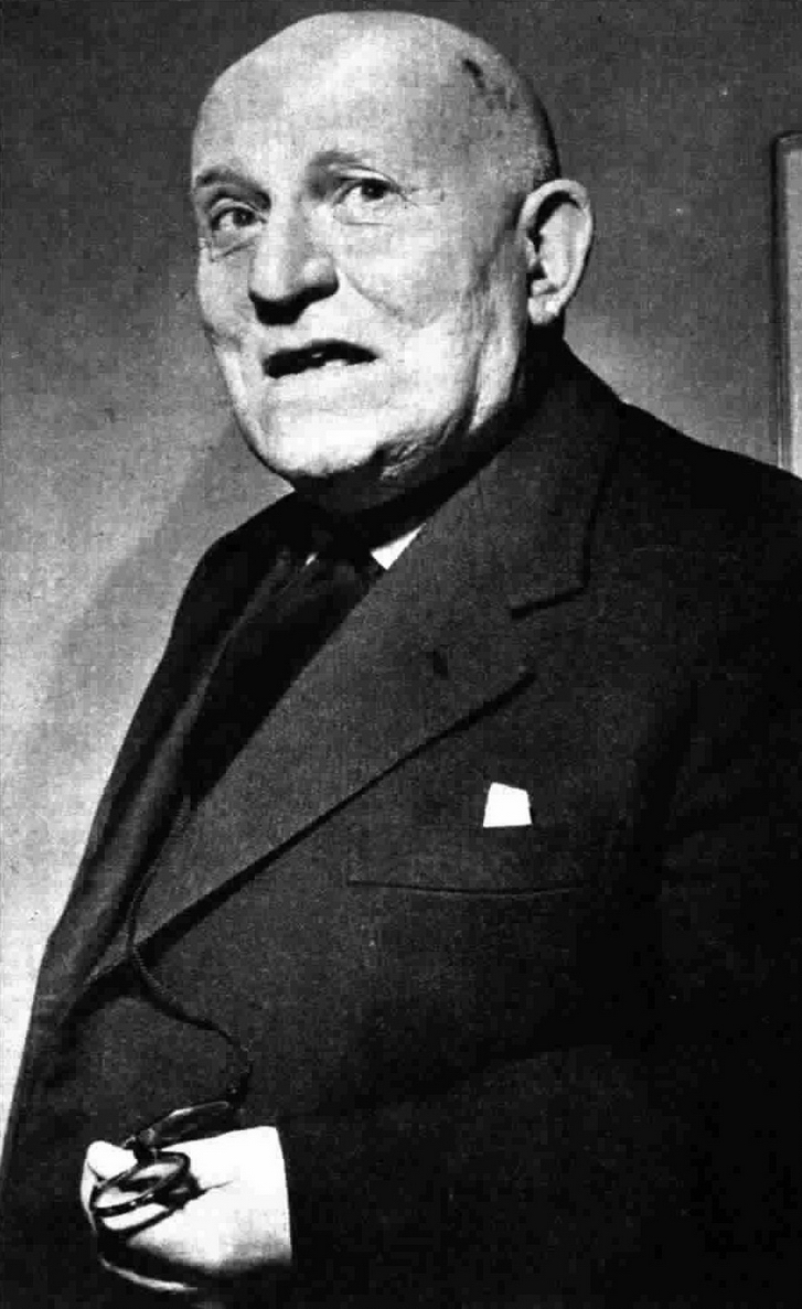 Italian writer Manara Valgimigli